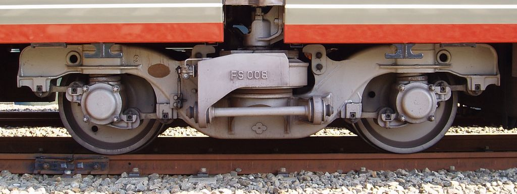 Jacobs bogie of Odakyu Electric Railway type 7000. 小田急7000形LSEの連接台車（付随台車FS008） 2007.10.21 海老名検車区一般公開にて Photo by Cassiopeia_sweet.